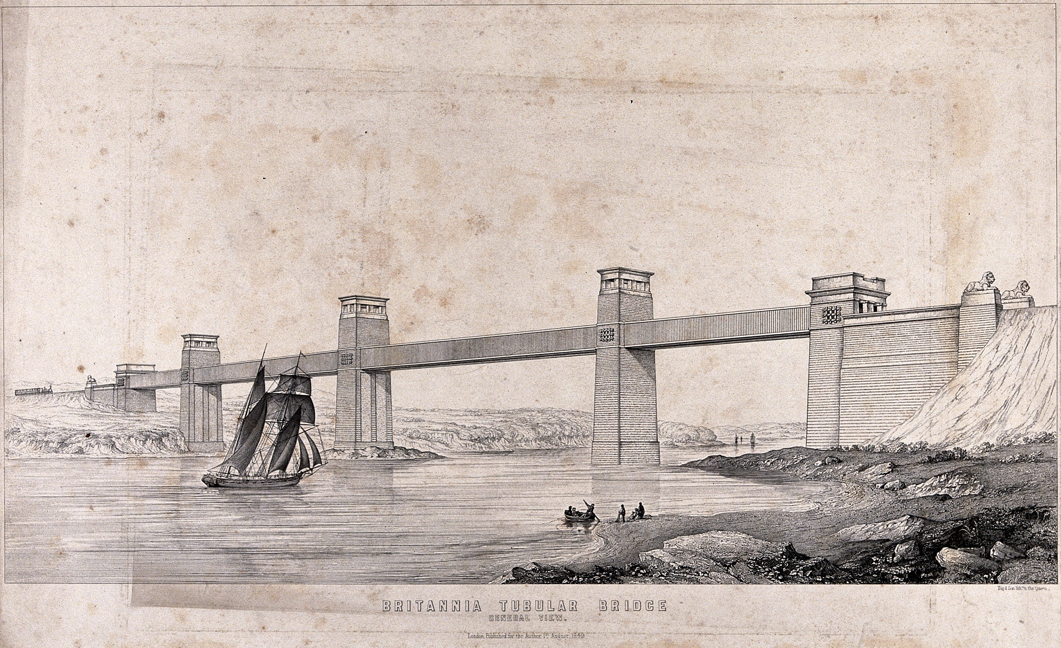 Civil engineering: the Menai box girder bridge. Lithograph by Day & son, 1849, after E. Clark. Iconographic Collections Keywords: Edwin Clark; Robert Stephenson